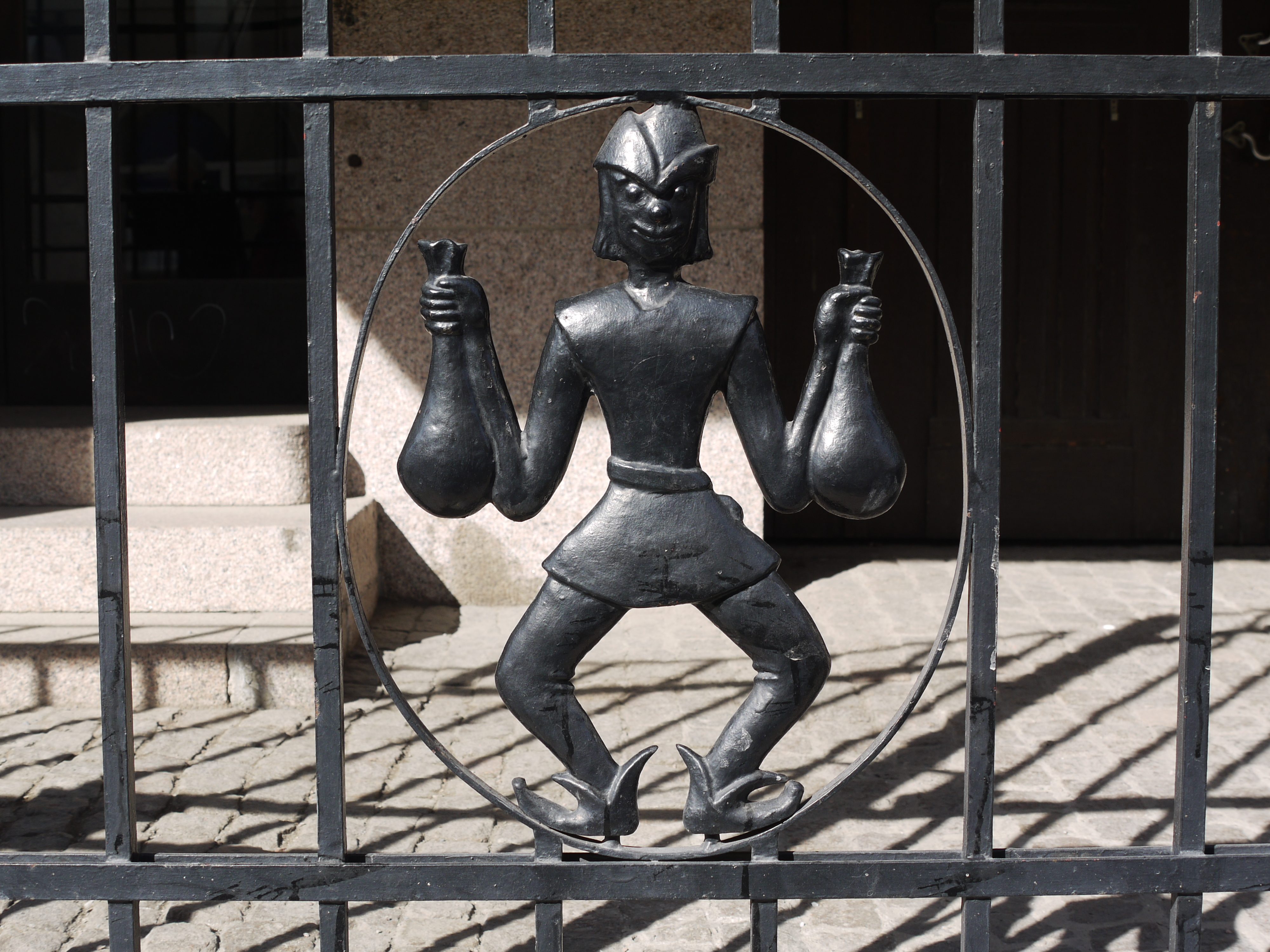 Photographs taken in early morning on the 3rd of april 2010 in Nyköping in Sweden